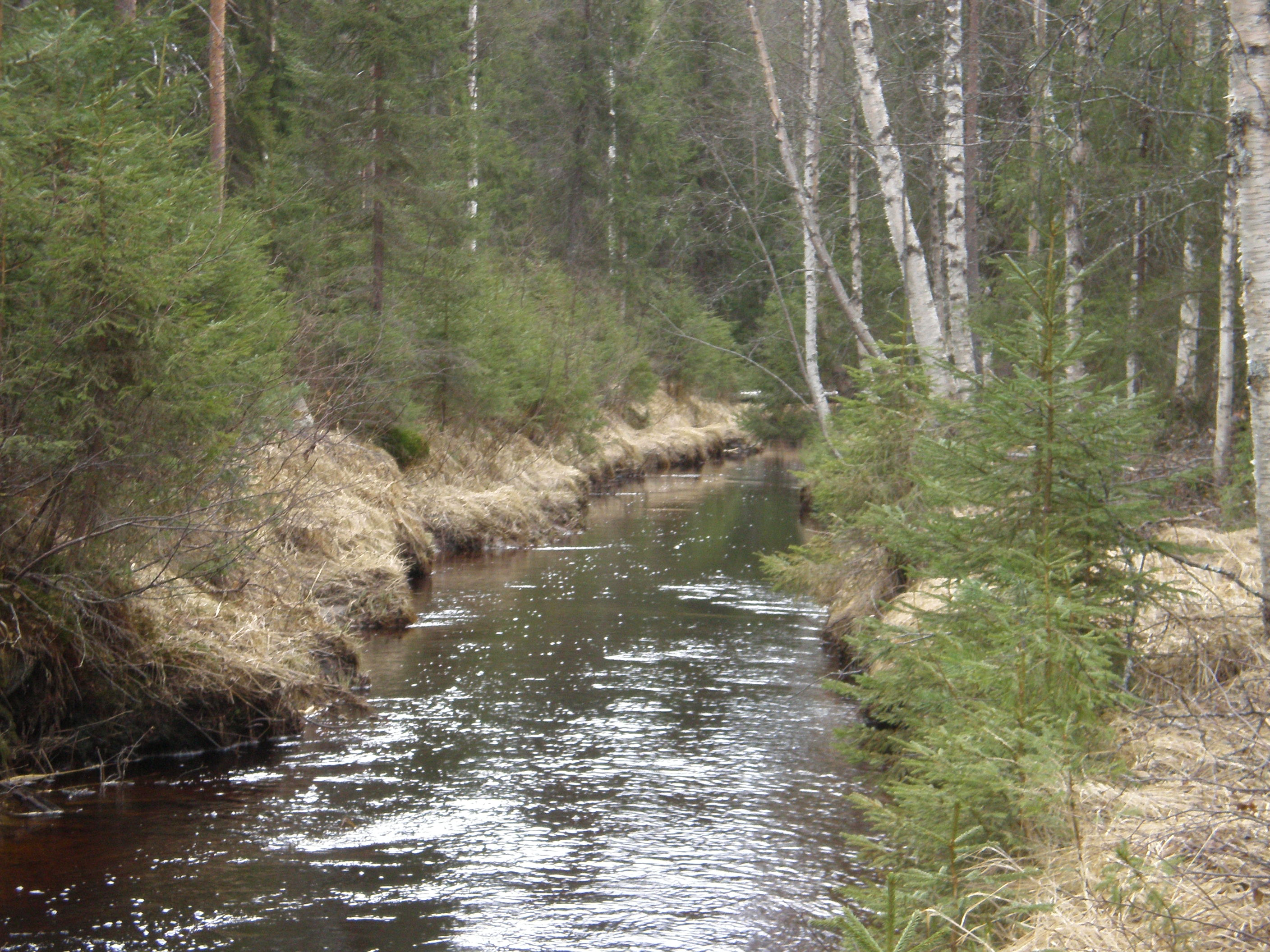 A Stream